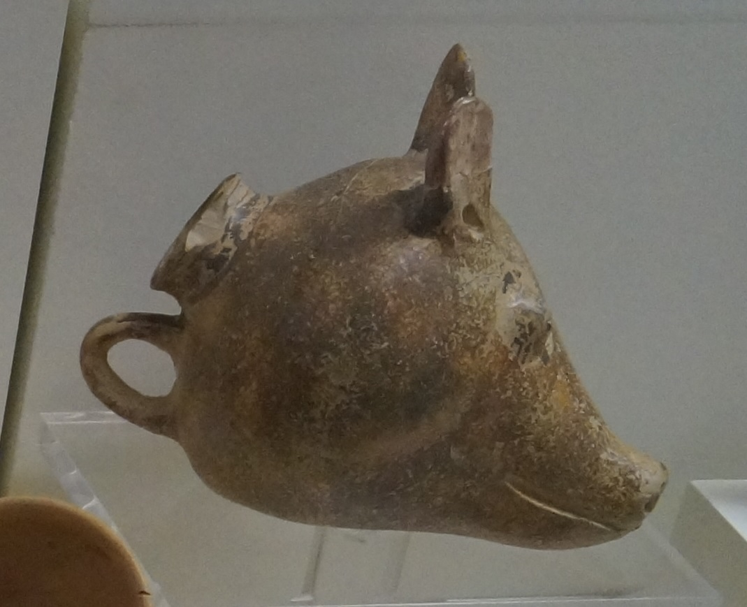 Archaeological Museum of Piraeus, Greece: Mycenaean pottery from Salamis. Rhyton from Agios Konstantinos on Methana in the shape of a pig.